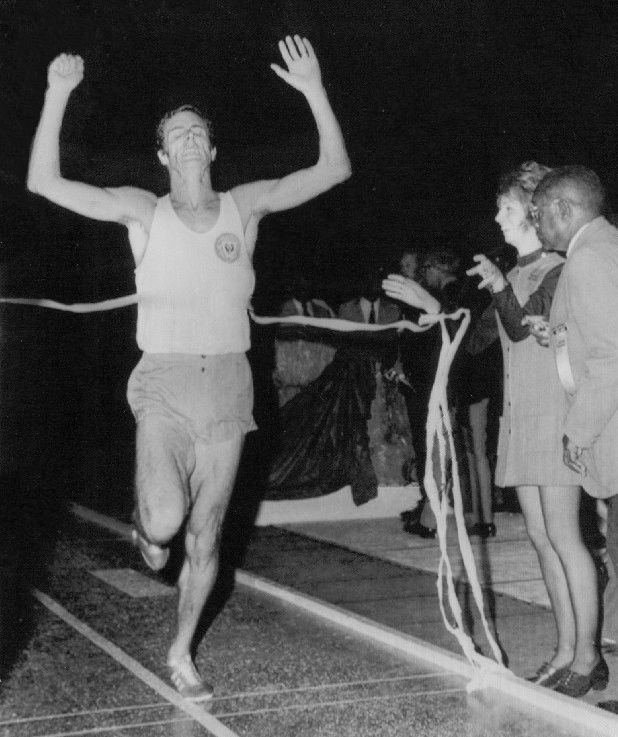 1971 Australian Runner Kerry Obrien World Record at San Diego Game Press Photo